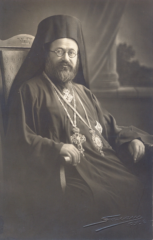 Bishop Mihail Dorostolo-Chervensky (1884-1961)